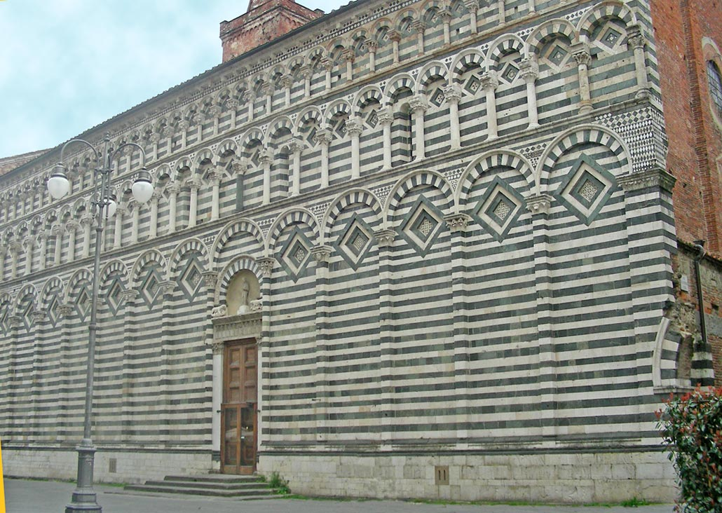 Pistoia, church of St.Giovanni Fuoricivitas, north side